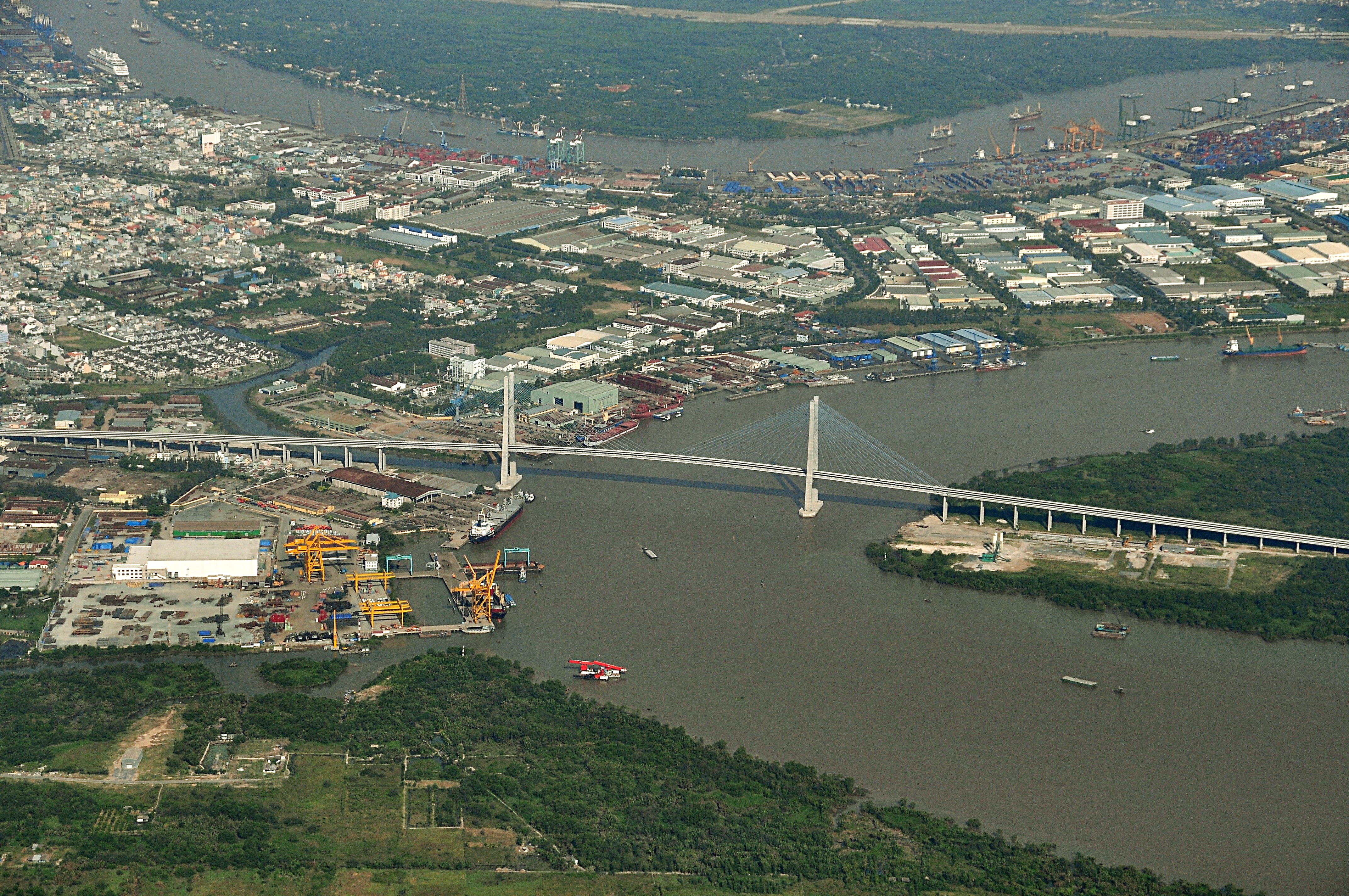 Aerial view of Phu My Bridge over the Saigon River in Ho Chi Minh City, Vietnam